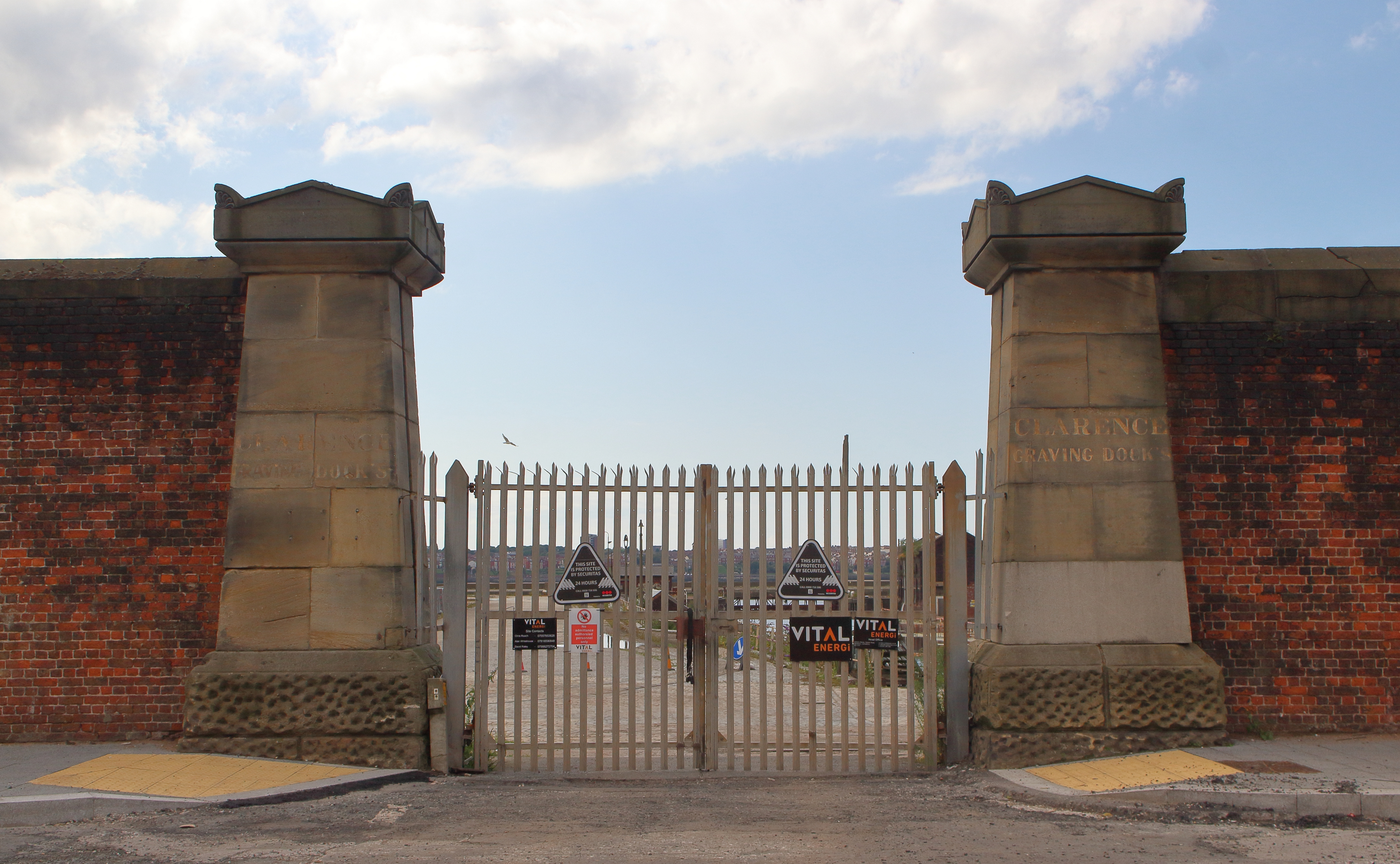 Grade II listed gates to Clarence Graving Docks, Regent Road, Liverpool. View into the dock area.